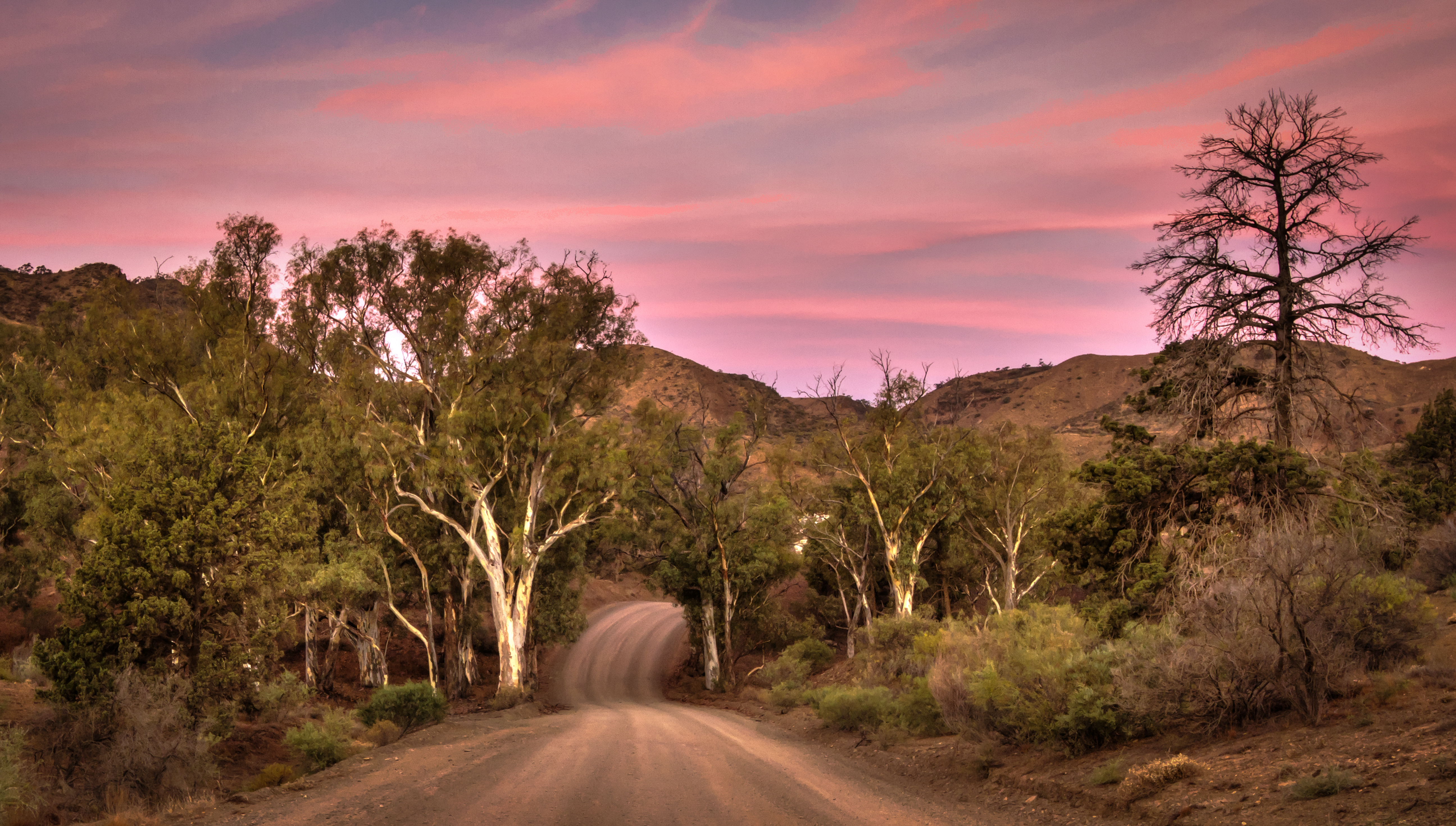 Back light from a Flinders sunset